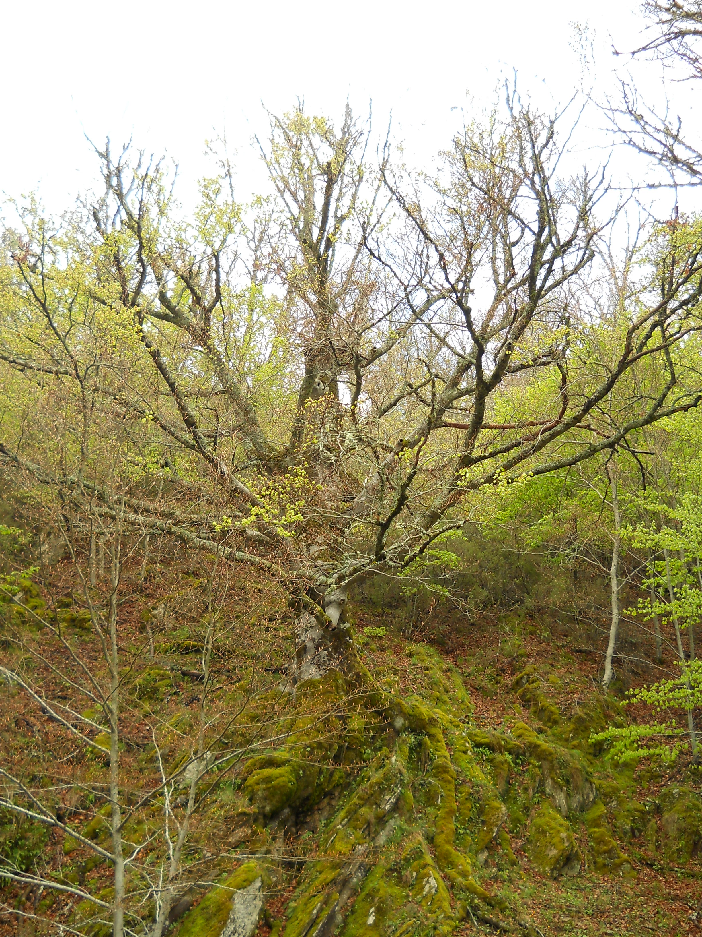 Beech of the Rock, Montejo Forest, Montejo de la Sierra, Madrid, Spain